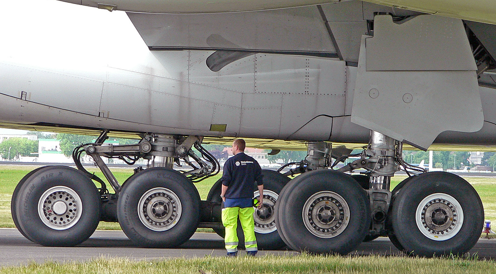 Airbus 380 at ILA 2006